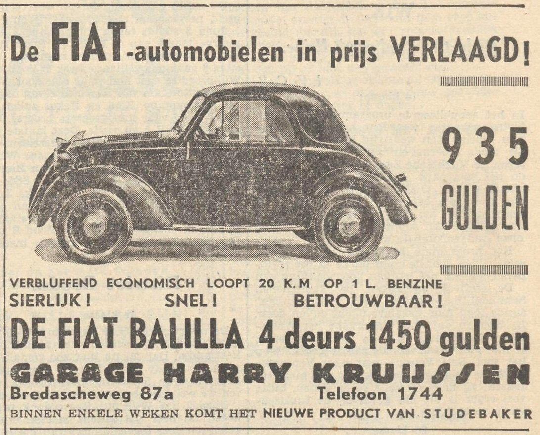 An advertisement for the Fiat Topolino (image, 935 Dutch guilders) and the Fiat Balilla (1450 guilders) in the "Nieuwe Tilburgsche Courant" (a newspaper from Tilburg, Netherlands) of 1 April 1939.